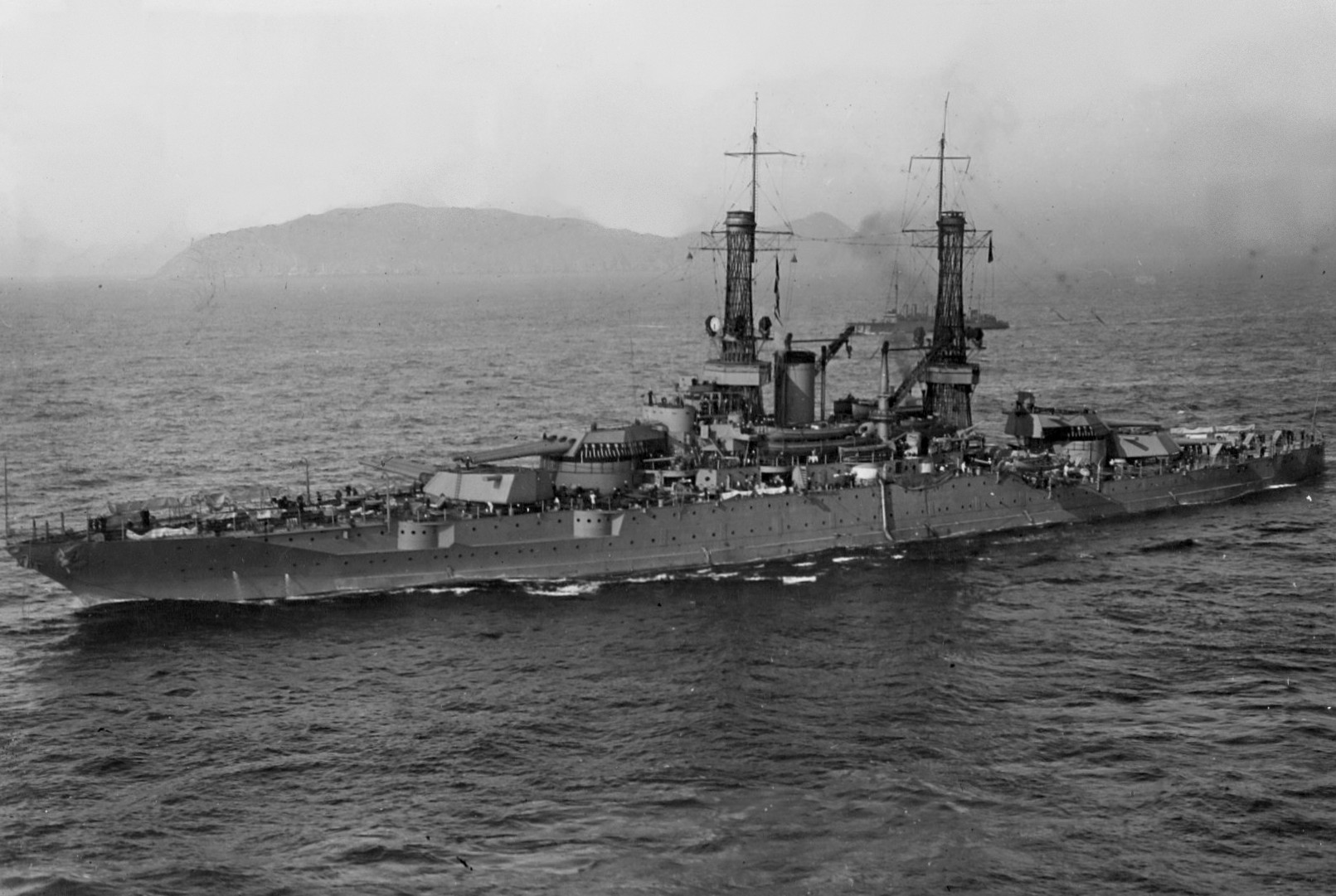 The U.S. Navy battleship USS New Mexico (BB-40) San Pedro, California (USA), in 1921. The Wickes-class destroyer USS Aaron Ward (DD-132) is visible in the background.